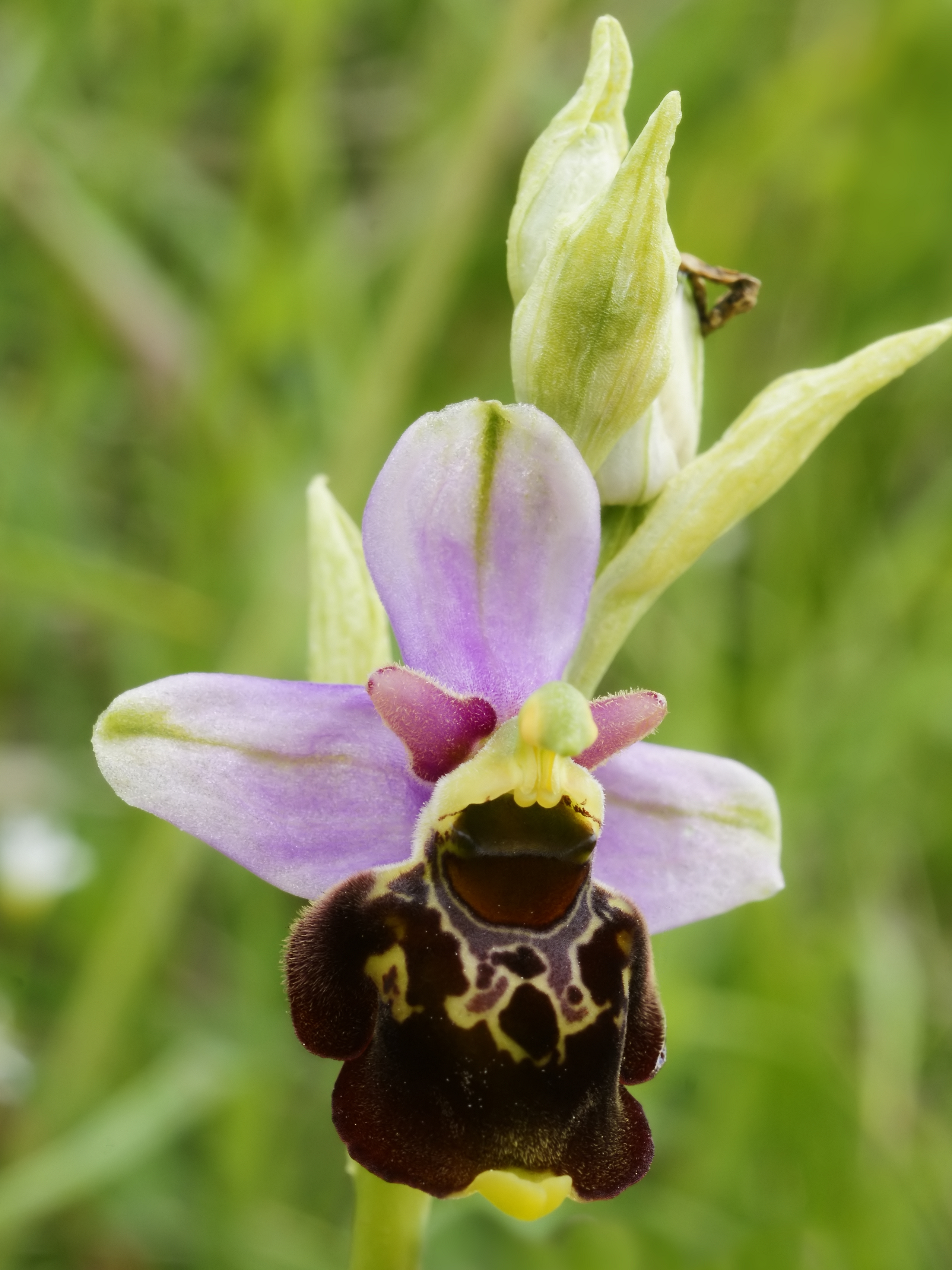 Late Spider orchid.